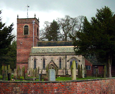 Photograph, enhanced and cropped